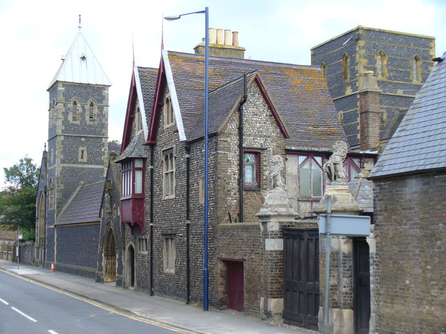 St Augustine's Abbey Church and The Grange Sombre Gothic revival architecture in knapped black flint. The RC church in St Augustine's Road was designed by Pugin and opened in 1851. It has been in the possession of Benedictine monks since 1856.